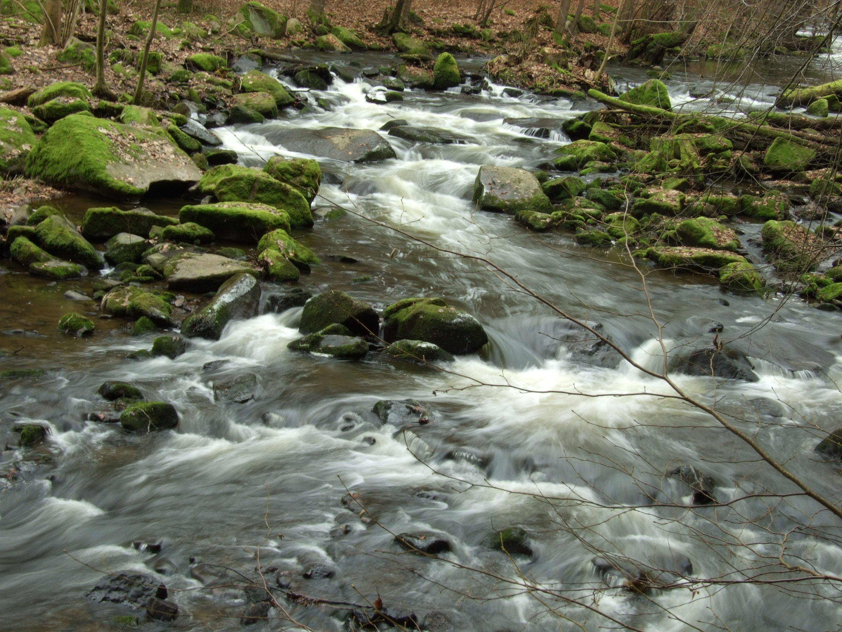 Hamerský potok creek near Malý Ratmírov, a village - part of Blažejov, close to Jindřichův Hradec, South Bohemian Region, CZ